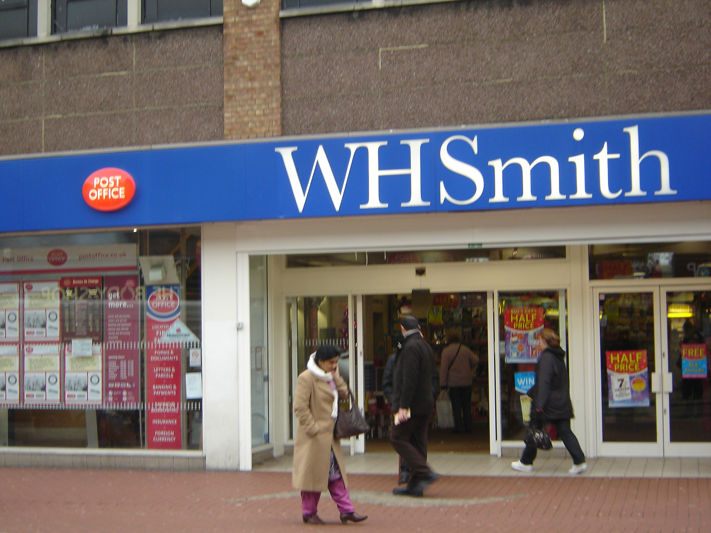 WH Smith branch in Hounslow, pretty much identical to almost every WH Smith in the UK, however this one also plays host to Hounslow's main branch of the Post Office.